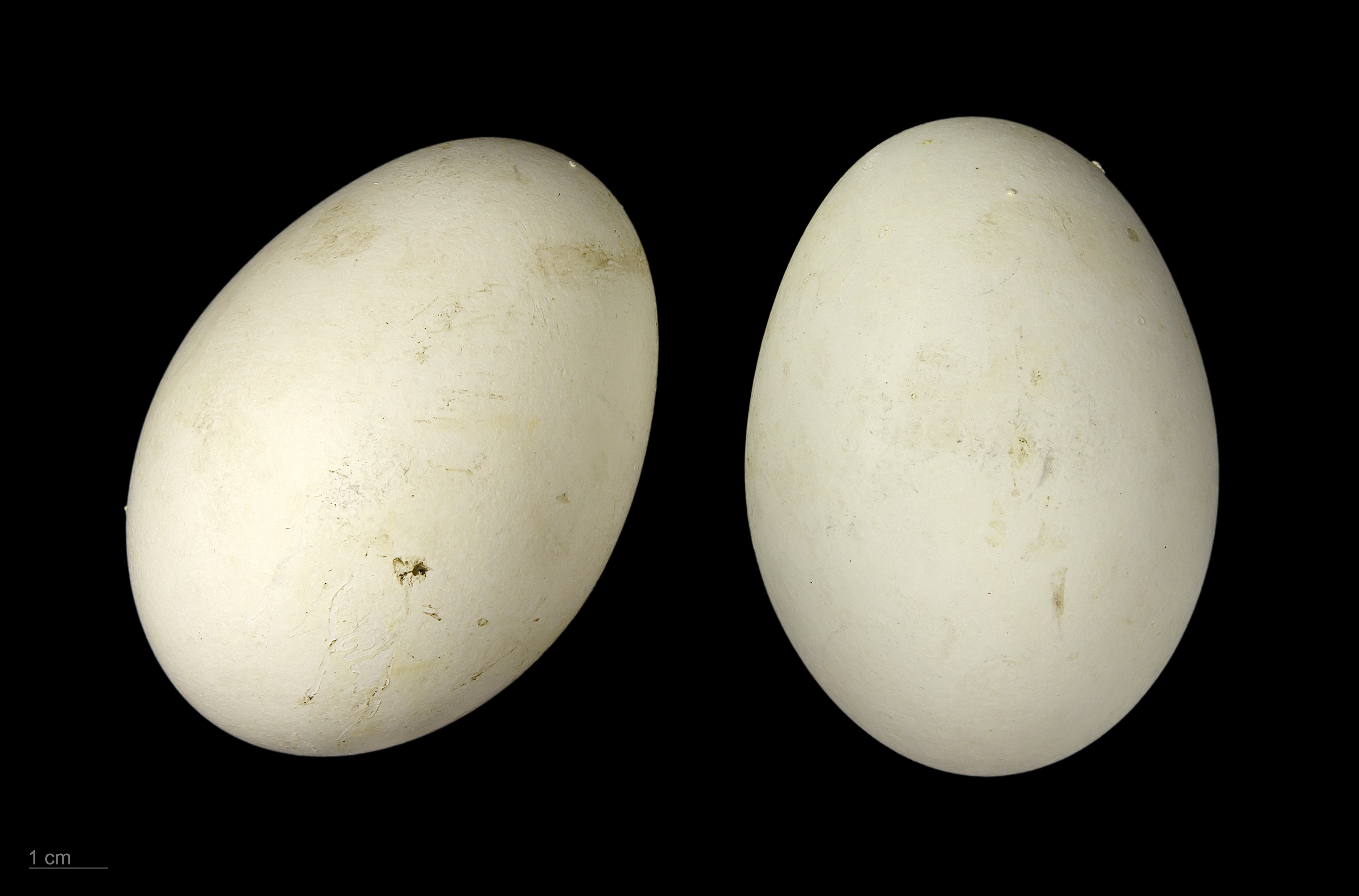 Egg of Cape Barren goose Collection of Jacques Perrin de Brichambaut.